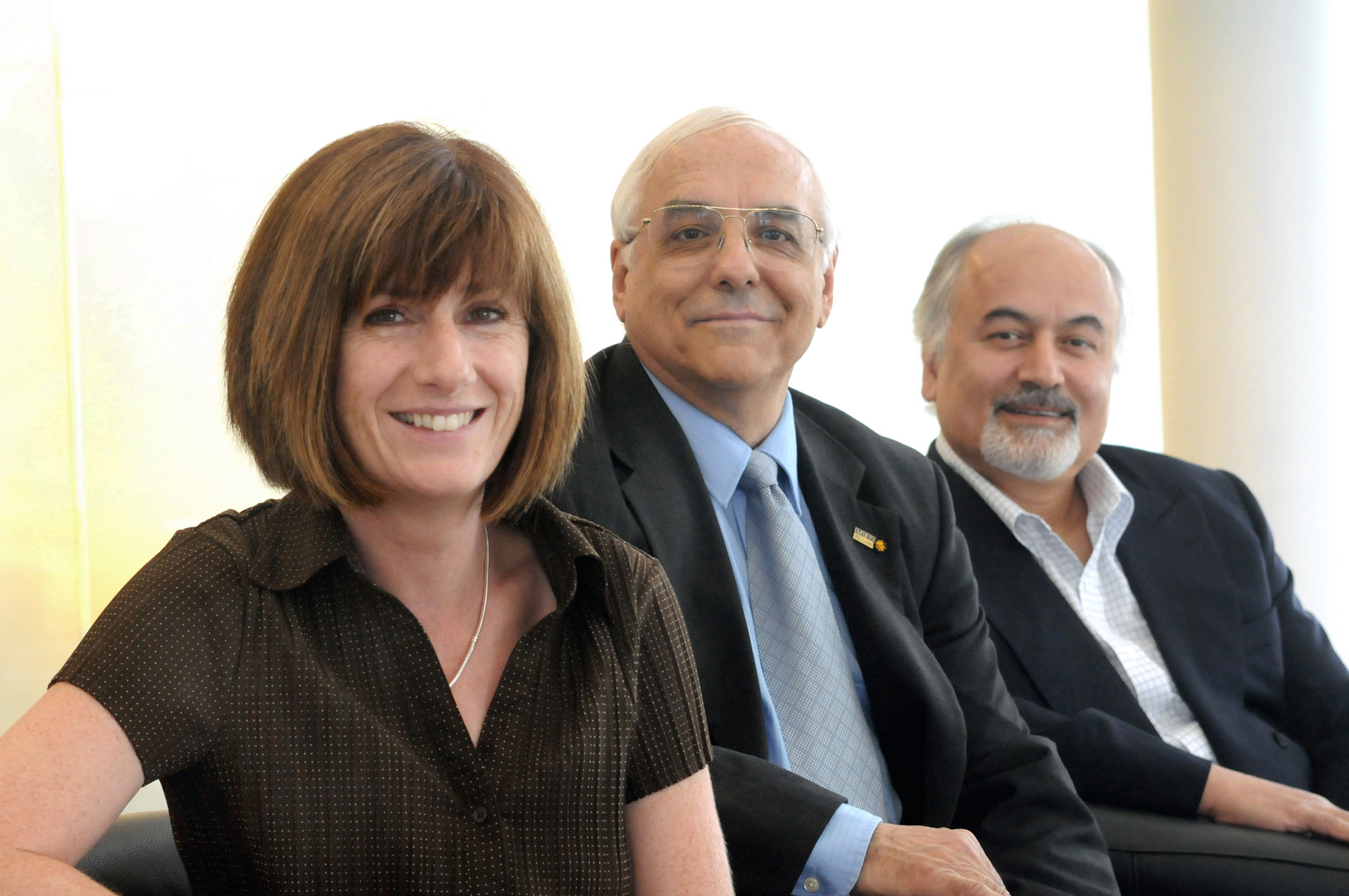 Argonne named three outstanding scientists as Distinguished Fellows this year. From left: Amanda Petford-Long, Orlando Auciello and Ali Erdemir.